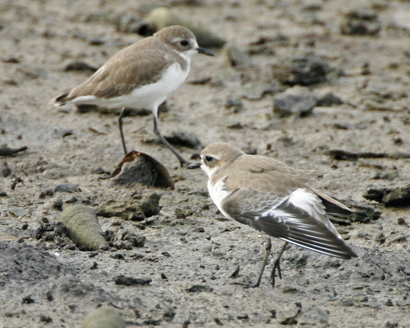 Lesser Sand Plover (Charadrius mongolus)